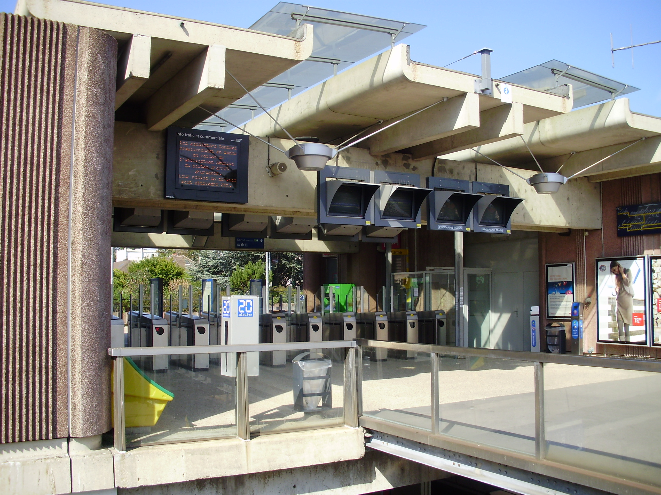 Viroflay-Rive-Gauche station, in Viroflay, Yvelines, France (station building, tracks side, with four monitors showing terminal stations and platforms departure of the next trains)